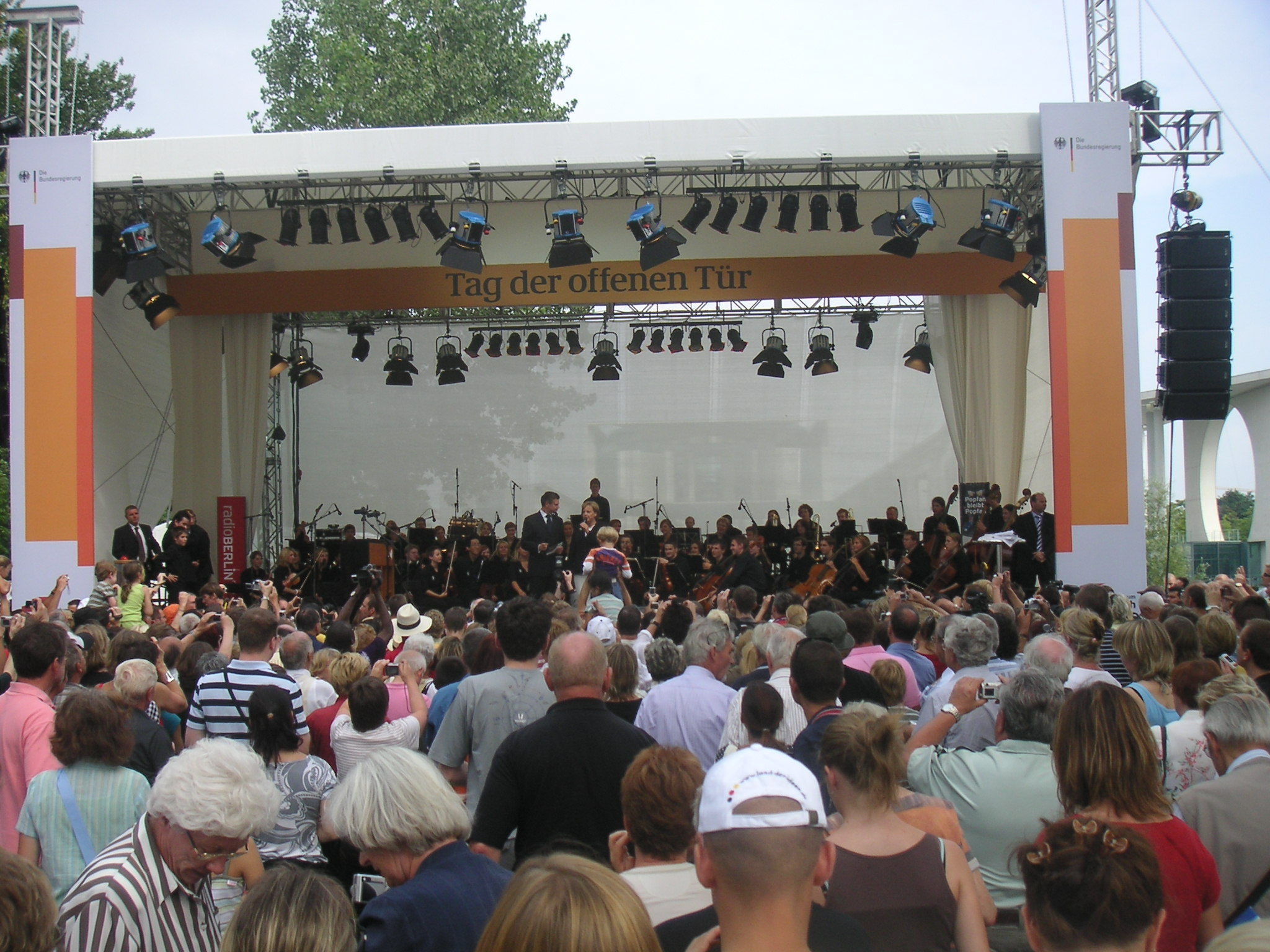 Open house at the chancellery 2007